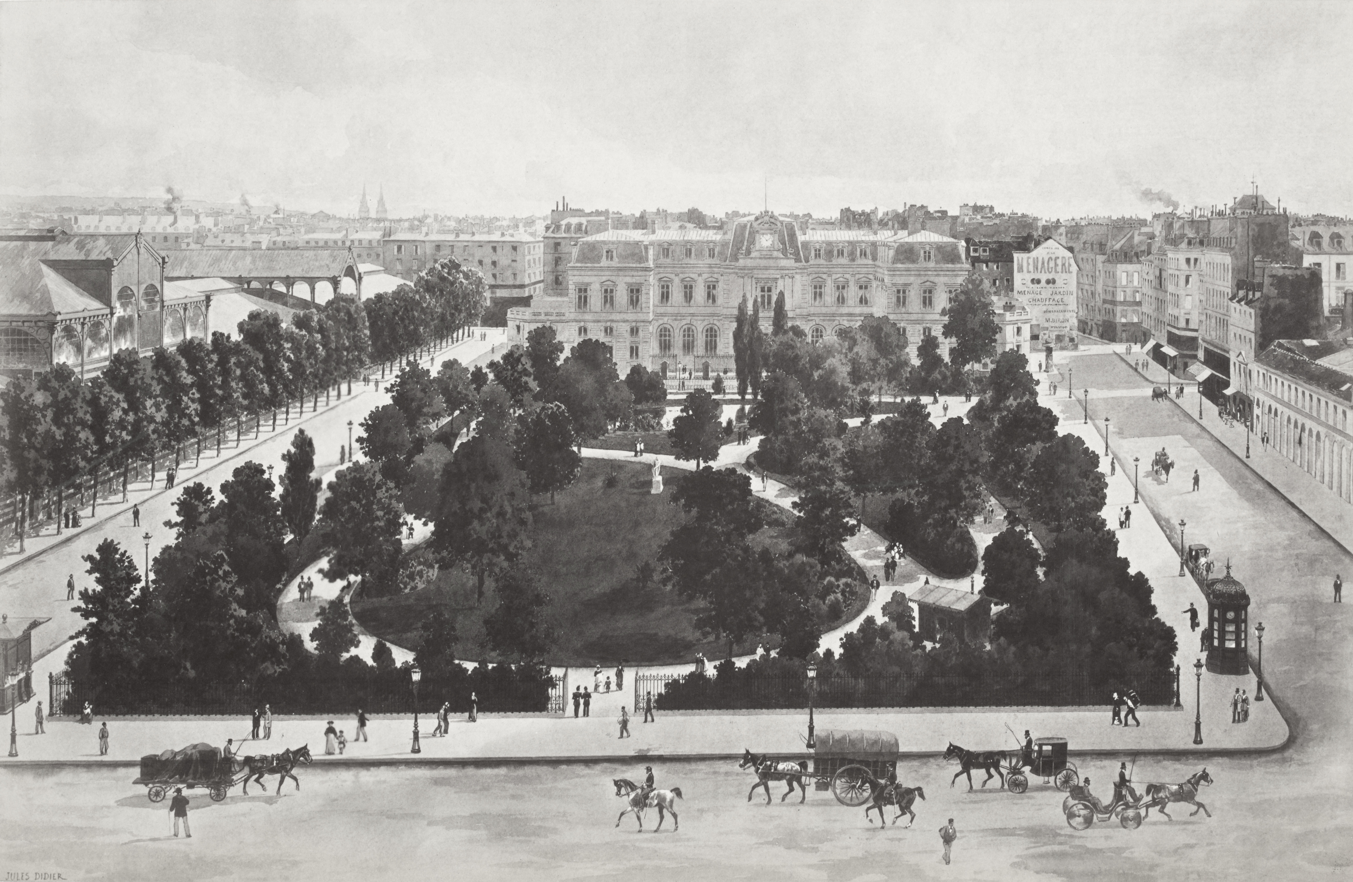 Photographed from a drawing: Elevated view of park with statues, surrounded on four side by streets and buildings, grill fence and gate, horse drawn vehicles on road in foreground, public building with clock at roofline in background.